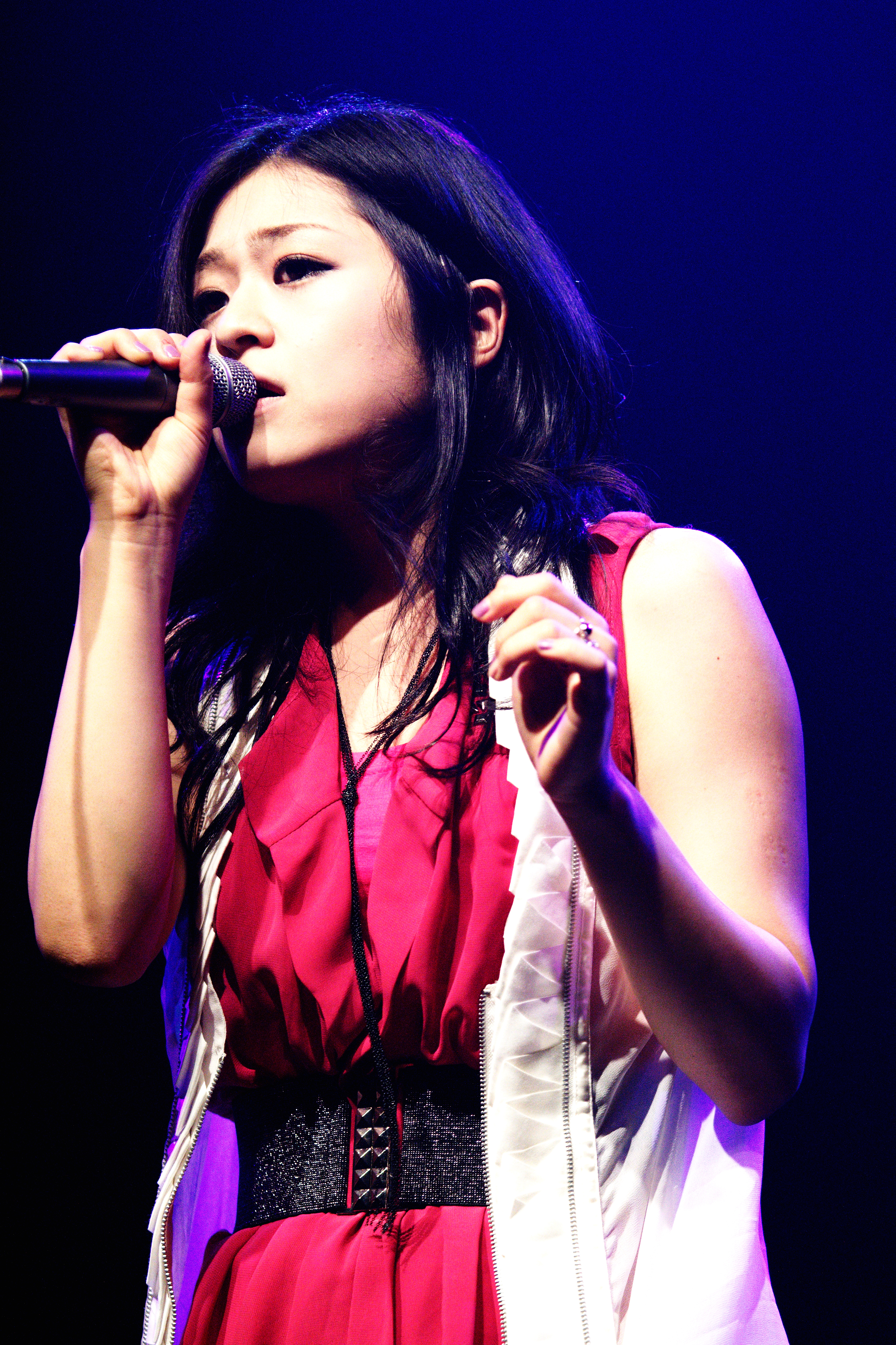 Ai Takekawa live at Japan Expo 2010 (Paris, France).